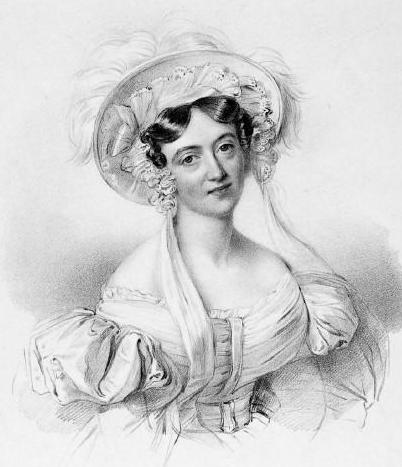 English pianist Lucy Anderson (1797-1878) by Richard James Lane (1800-1872) after Johannes Notz (1802-1862)